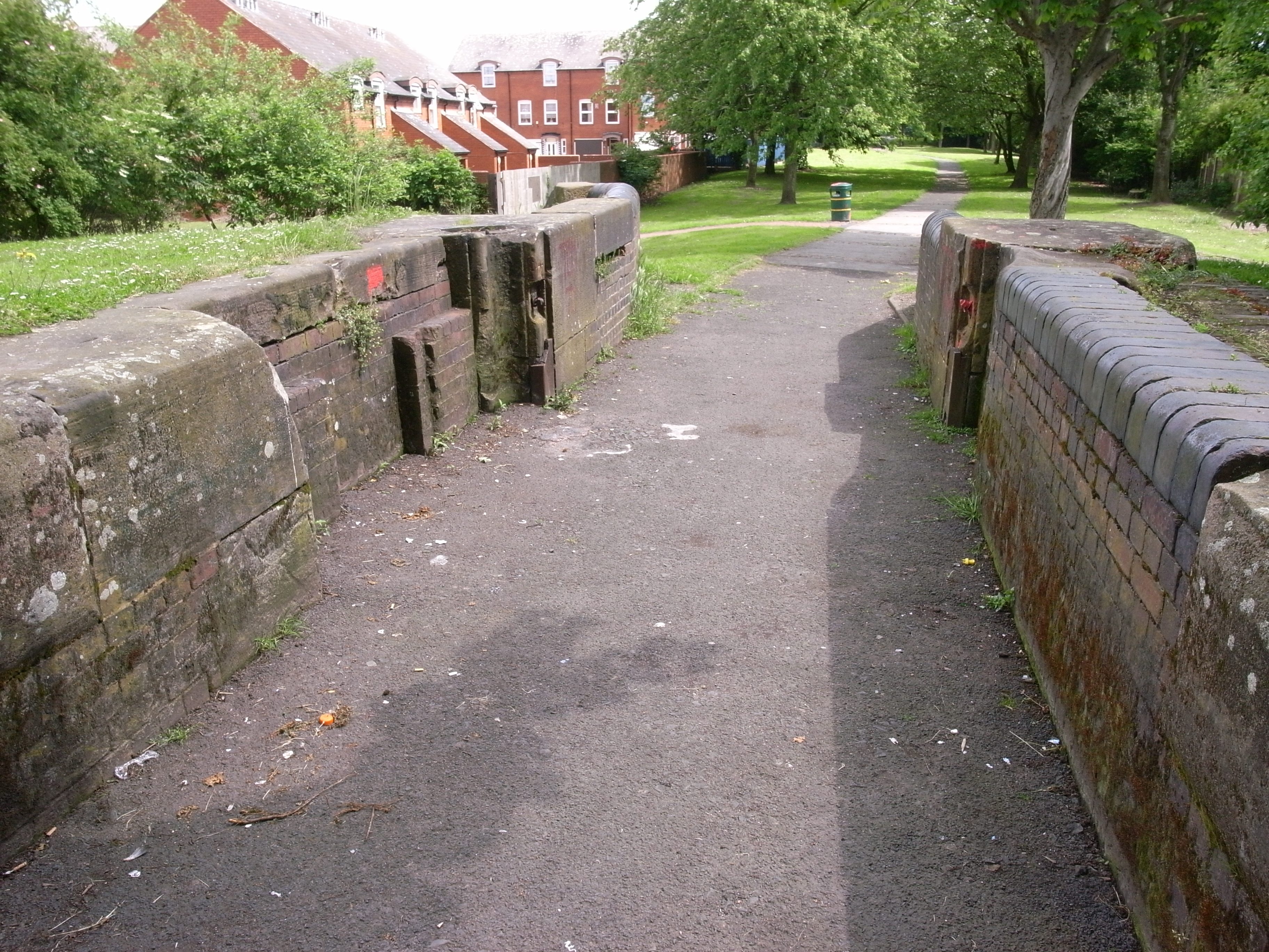 A derelict canal lock on the now filled-in Tipton Green Canal in Tipton, West Midlands, England. The canal was built in 1805 and closed in the 1960s. A public walkway runs along the length of the canal, through the lock, between Tipton Green Junction and Watery Lane Junction.